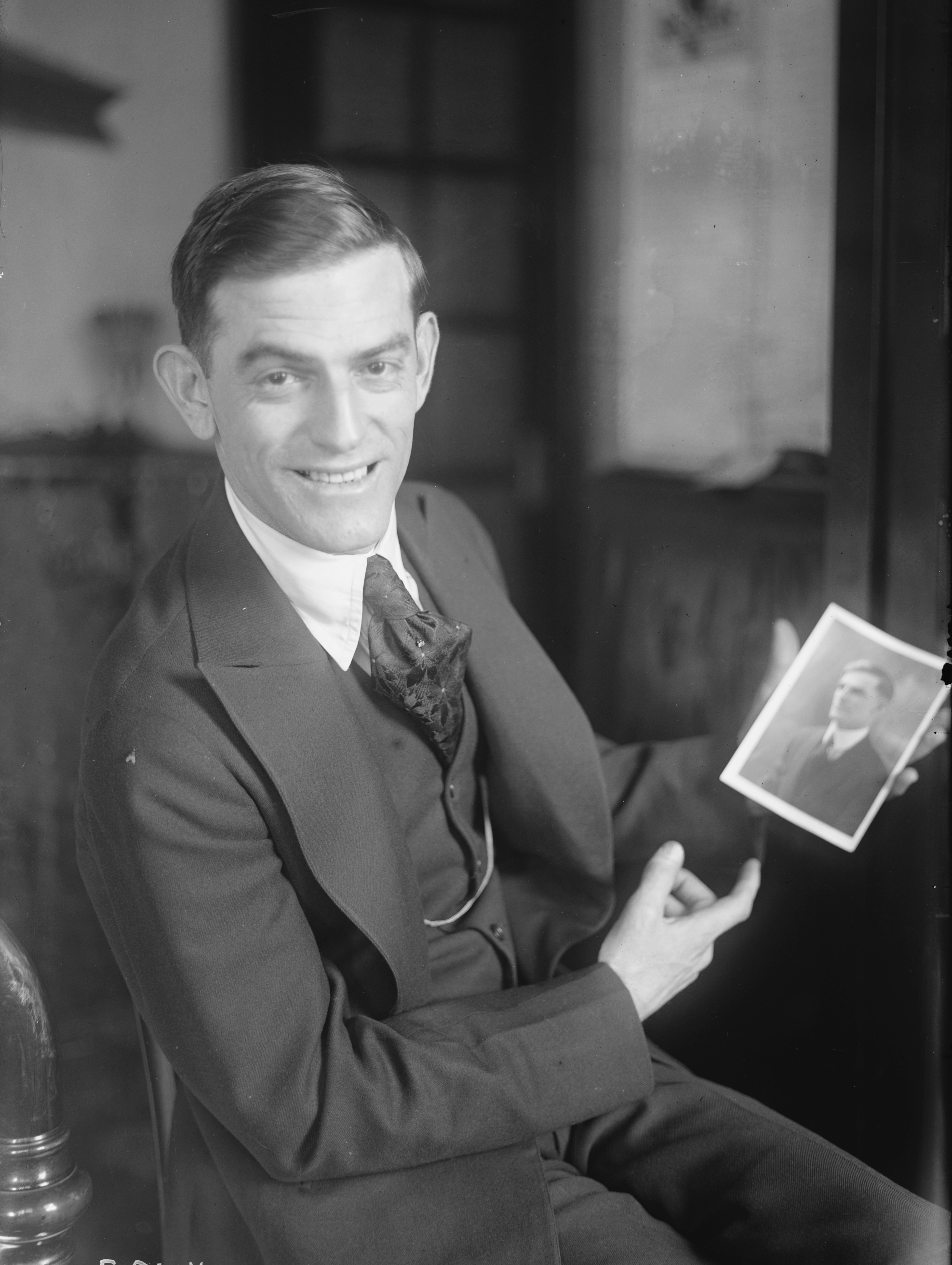 Singer & Vaudeville star Al Bernard, seated, gesturing with one hand to a small photoportrait of himself held in the other hand.